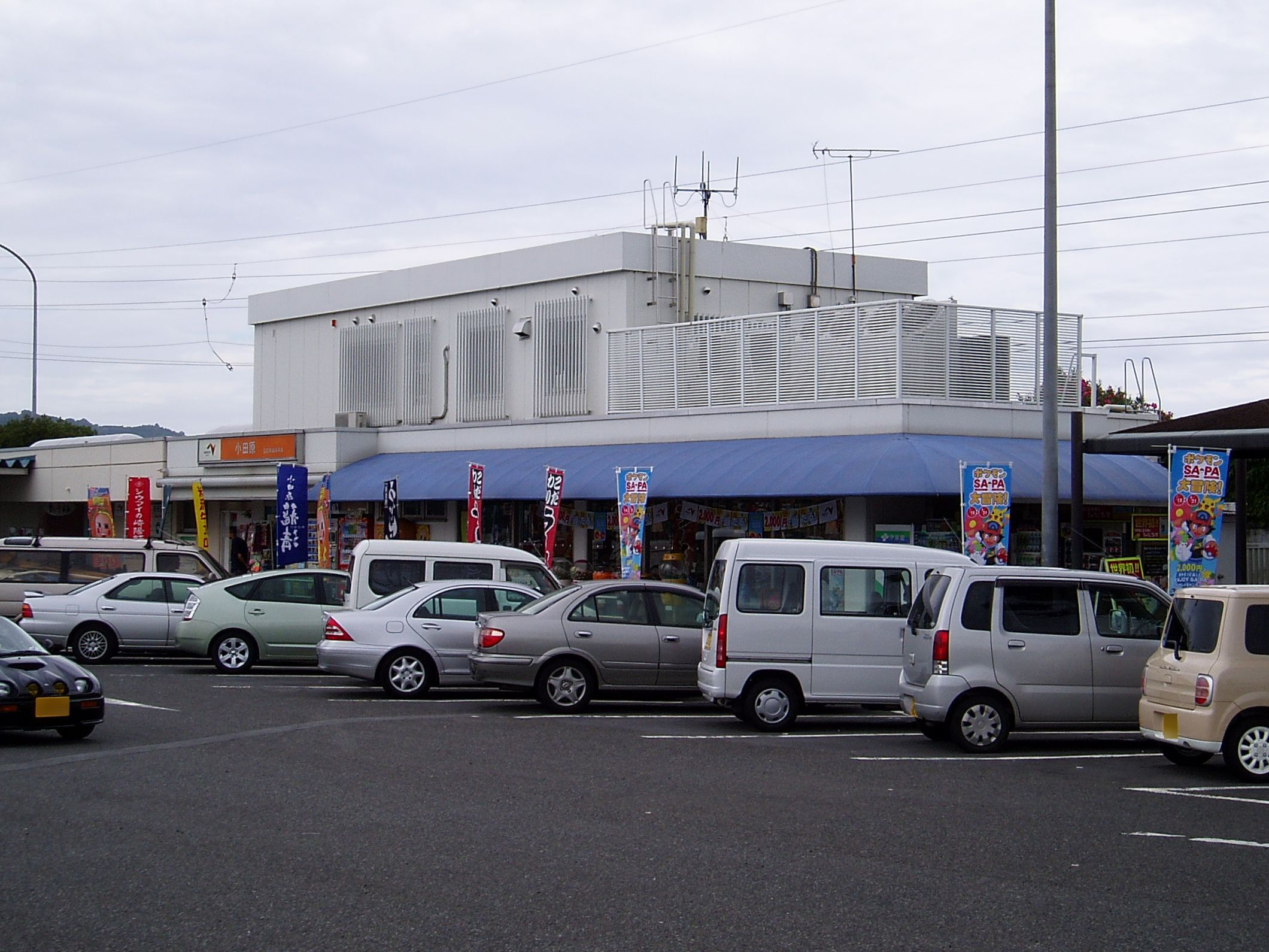 Odawara Periking Area, Route 271 in Japan